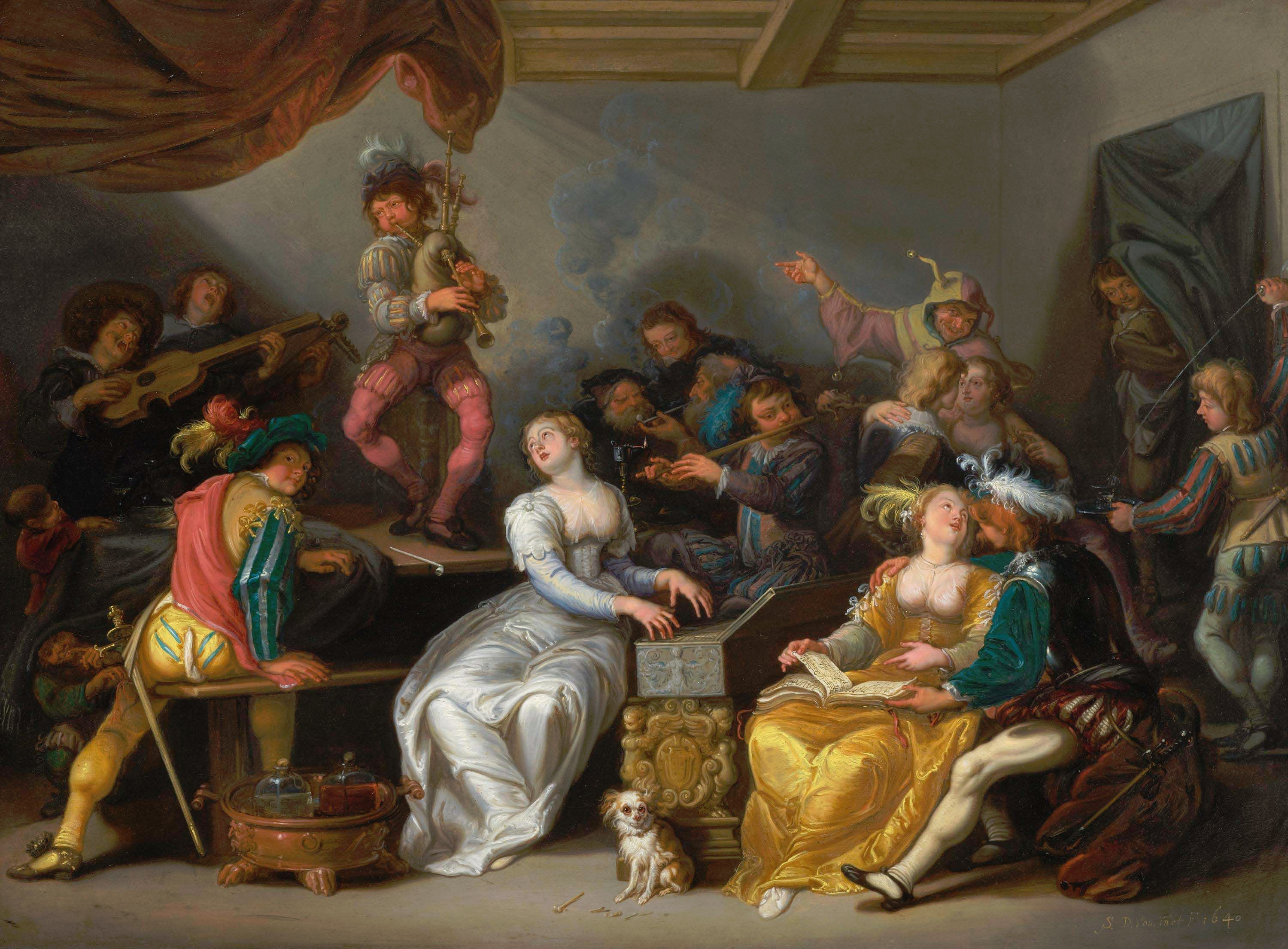 An Allegory of the Five Senses: A merry company in an interiorlabel QS:Len,"An Allegory of the Five Senses: A merry company in an interior" label QS:Lpl,"Alegoria pięciu zmysłów"